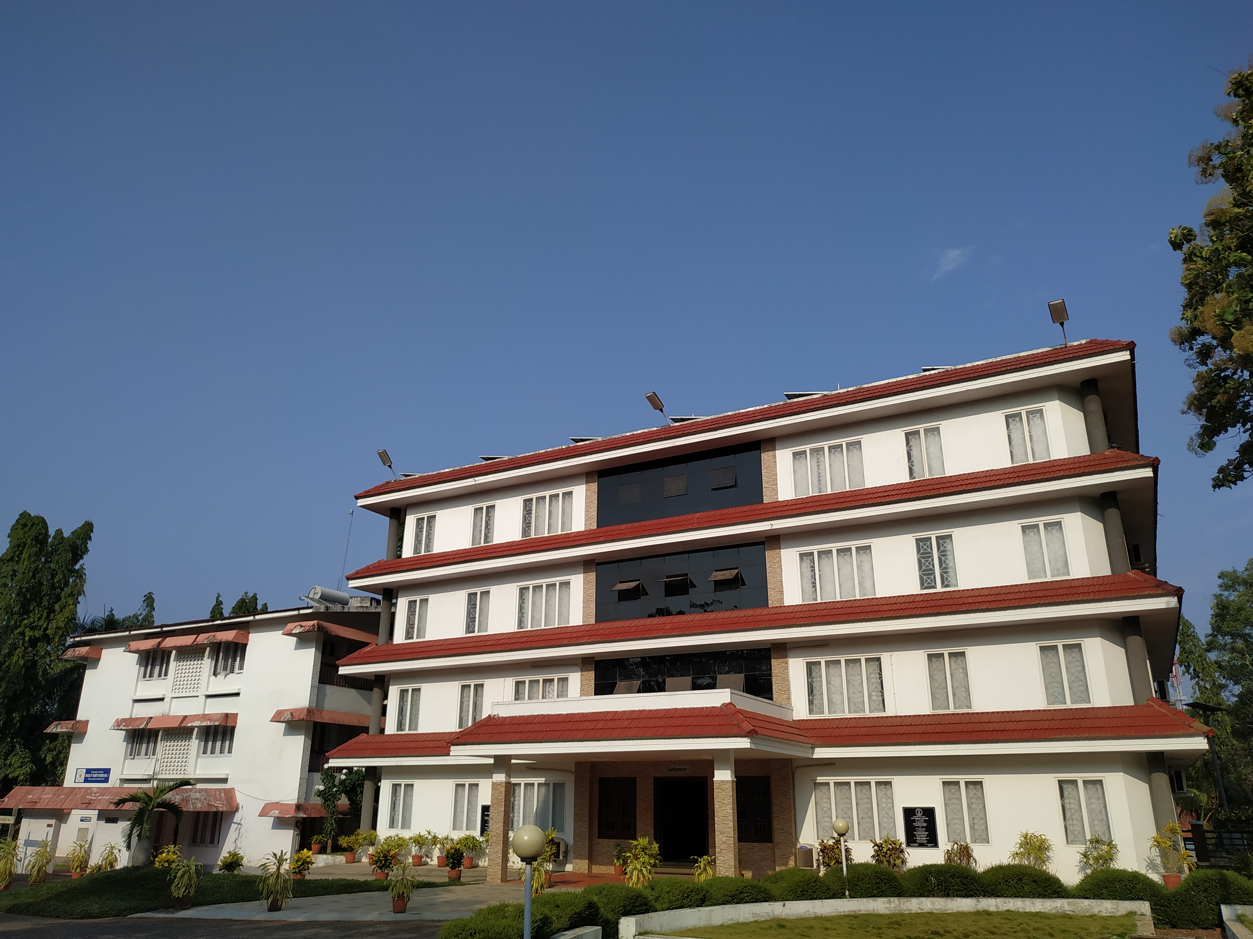 Calicut university vip guest house